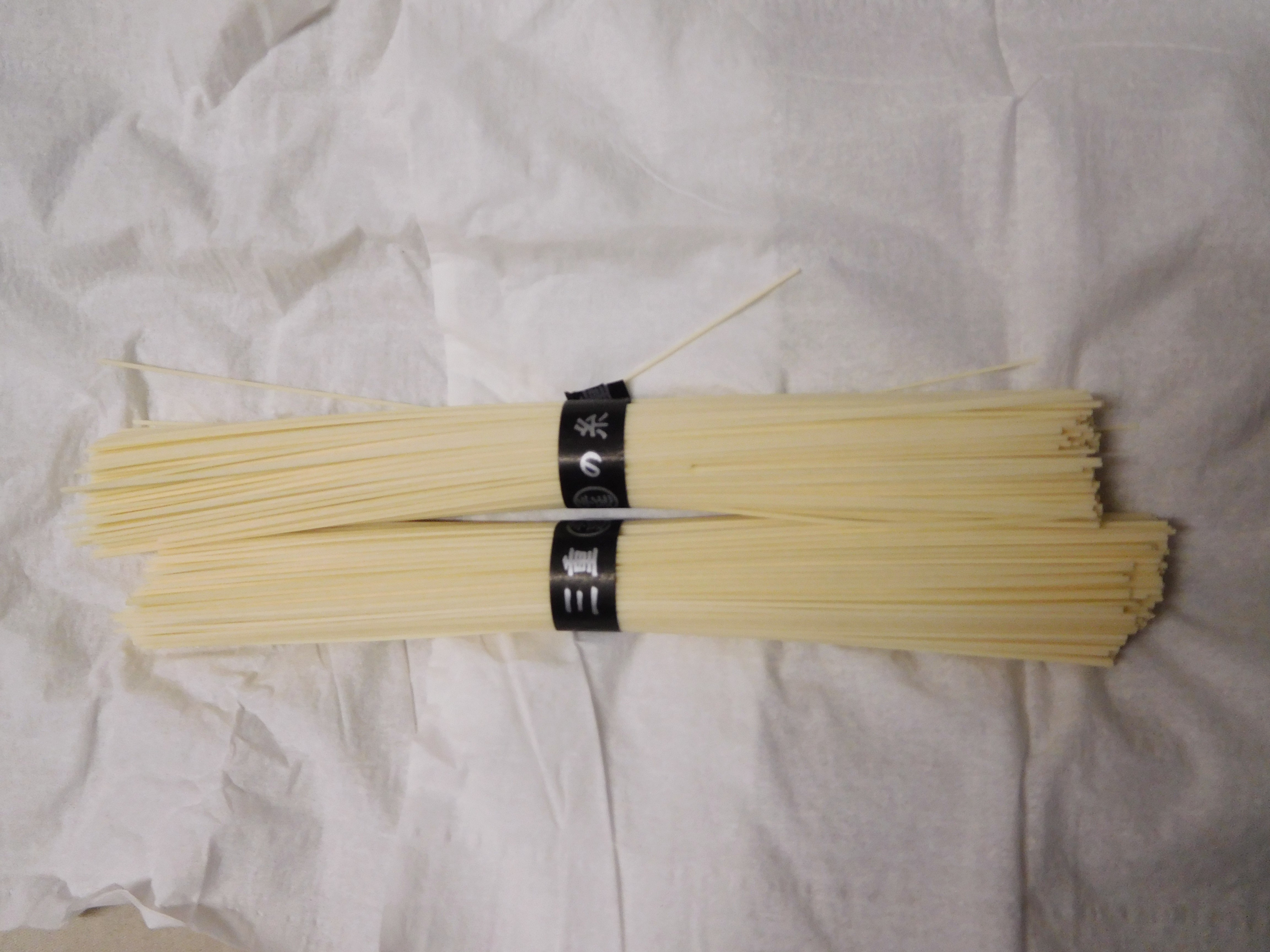 These are bunches of sōmen, which was made by Mie no Ito Oyachi Handmade Sōmen Cooperative. These sōmen is named "Mie no Ito".